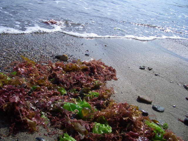 Seaweed